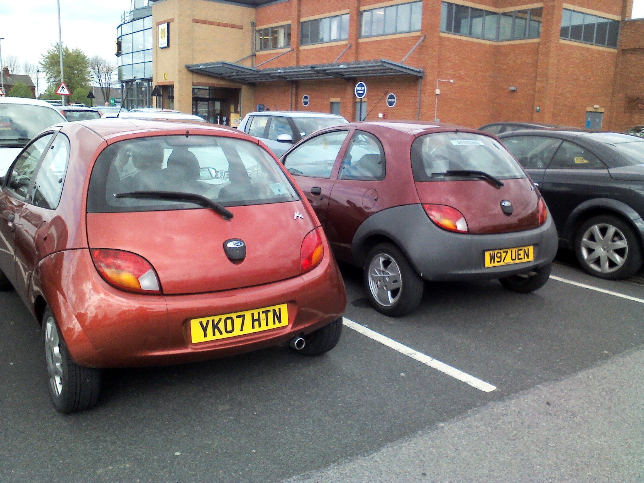 Mine and my mums Ka Luxury on the left and a 2000 Ka 3 on the right, I only tend to photograph early Ka's but I thought these deserved a photograph parked next to each other , great little cars aside from the tendancy to rust!